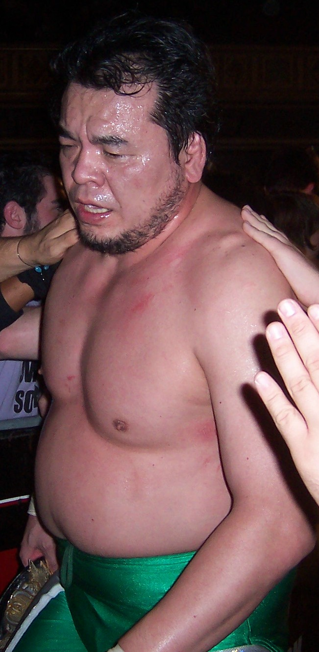 Mitsuharu Misawa after his GHC Heavyweight Championship defense against KENTA in ROH.